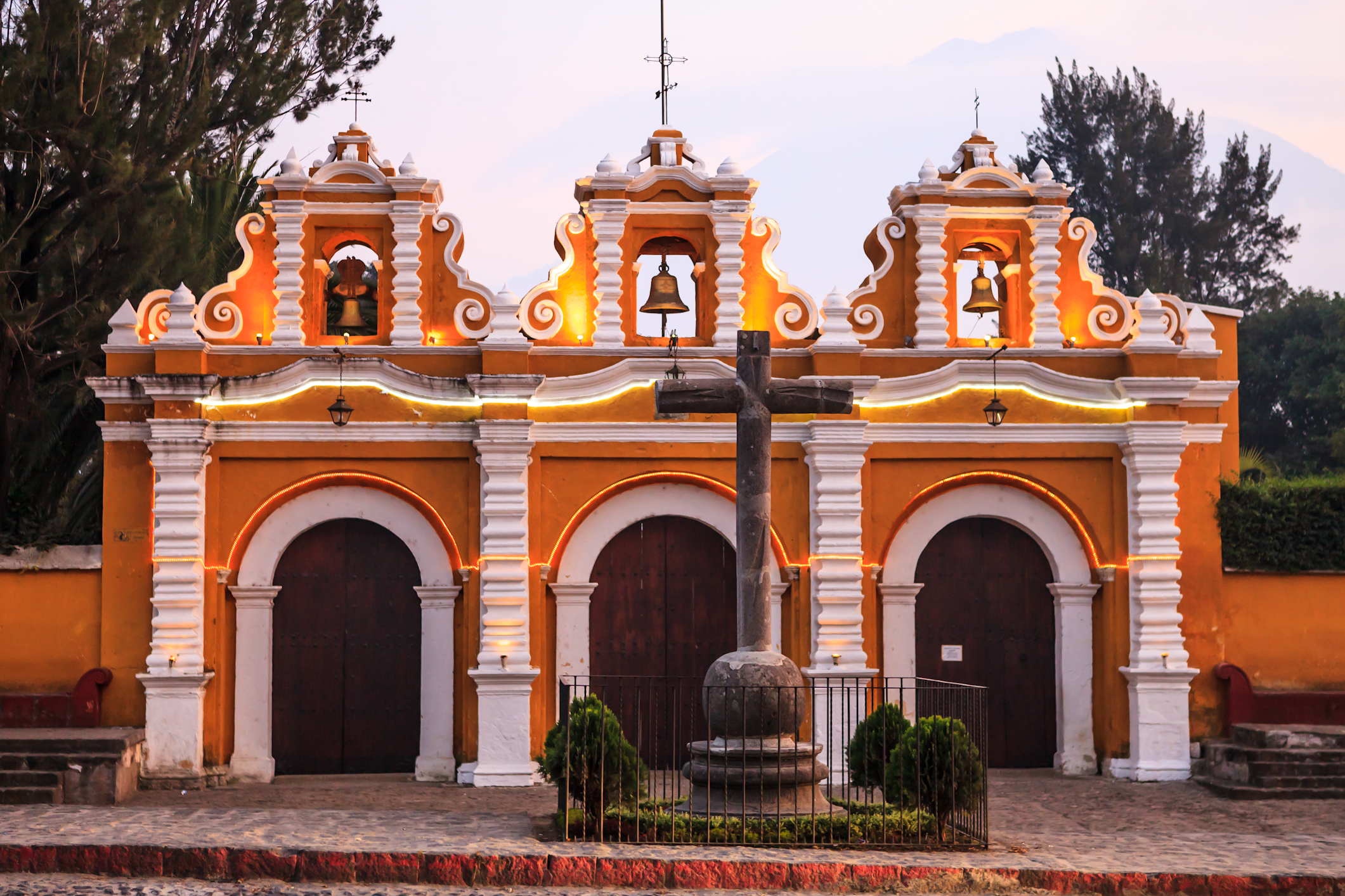 El Calvario church in Antigua Guatemala